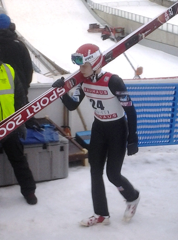 Finnish ski jumper Sami Heiskanen at Lahti Ski Games 2014.